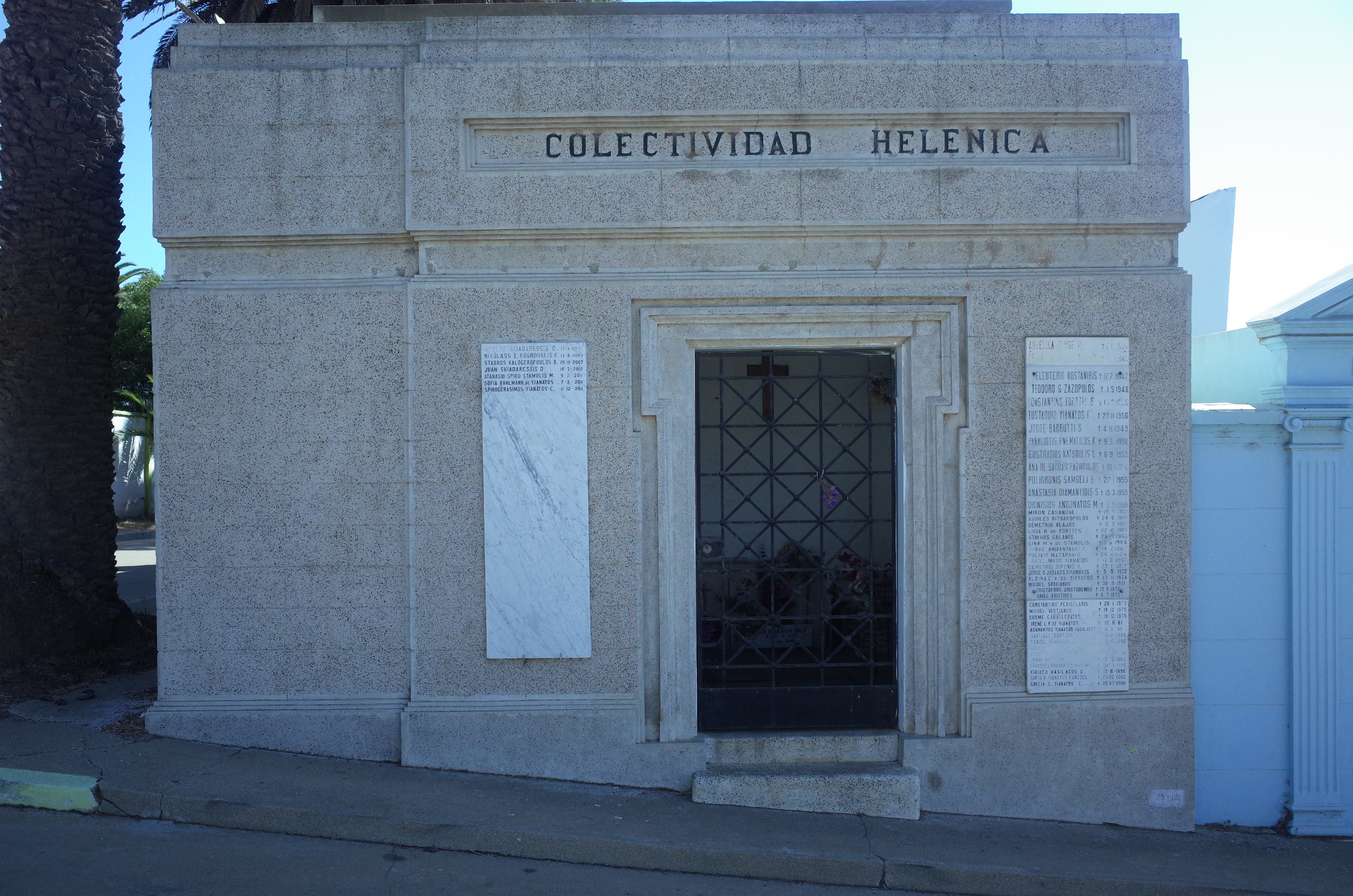 Greek mausoleum at cemetery Playa Ancha in Valparaiso